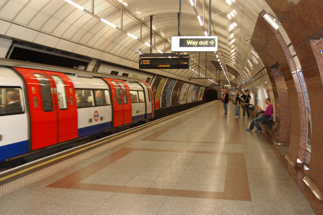 Train arriving at Angel underground station